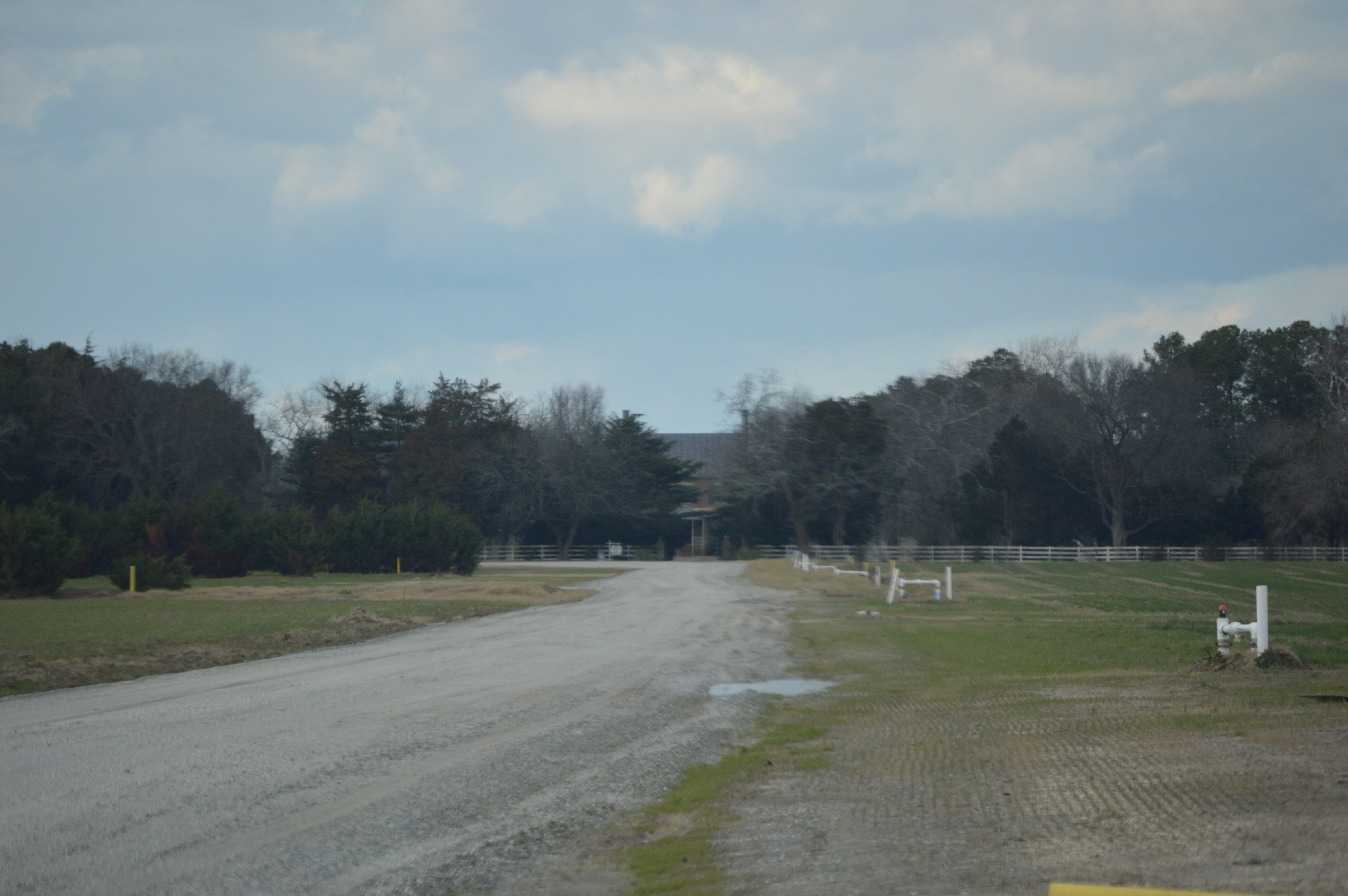 Driveway view of Grapeland, located on Occohannock Neck Road west of Exmore, in Northampton County, Virginia, United States. Built in 1825, it is listed on the National Register of Historic Places.